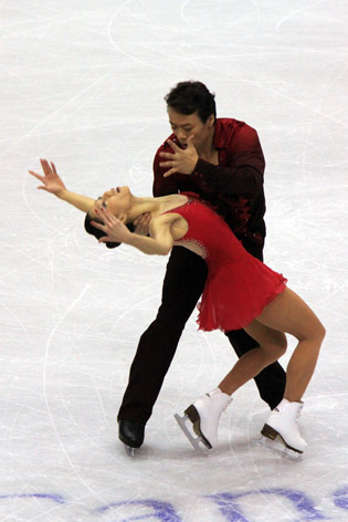 Shen Xue and Zhao Hongbo at the 2009 Skate America.